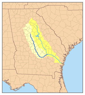 This is a map of the Altamaha River system with the Ocmulgee River highlighted. I, Pfly, created it based on USGS data.